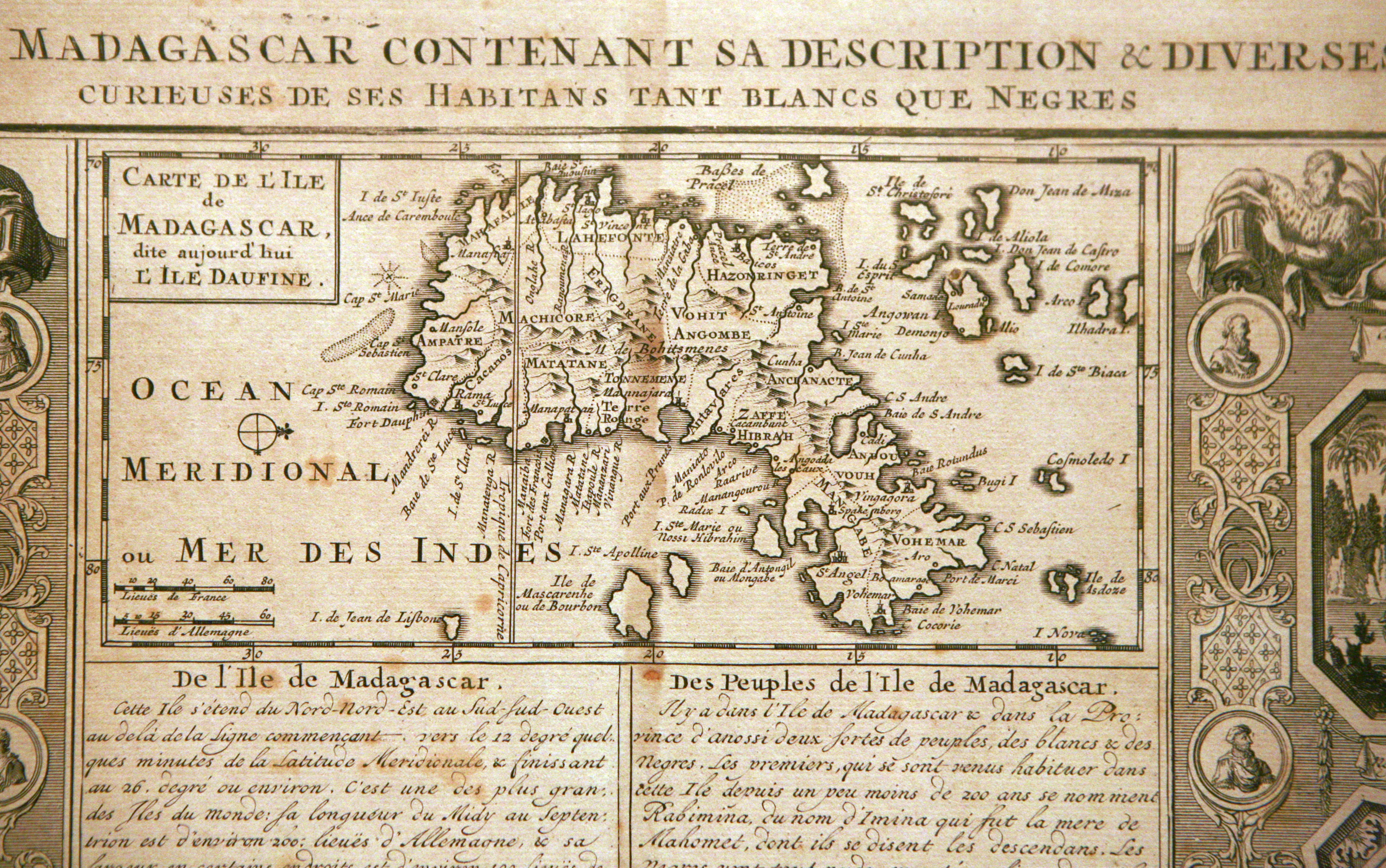 Life in Madagascar, 17th century